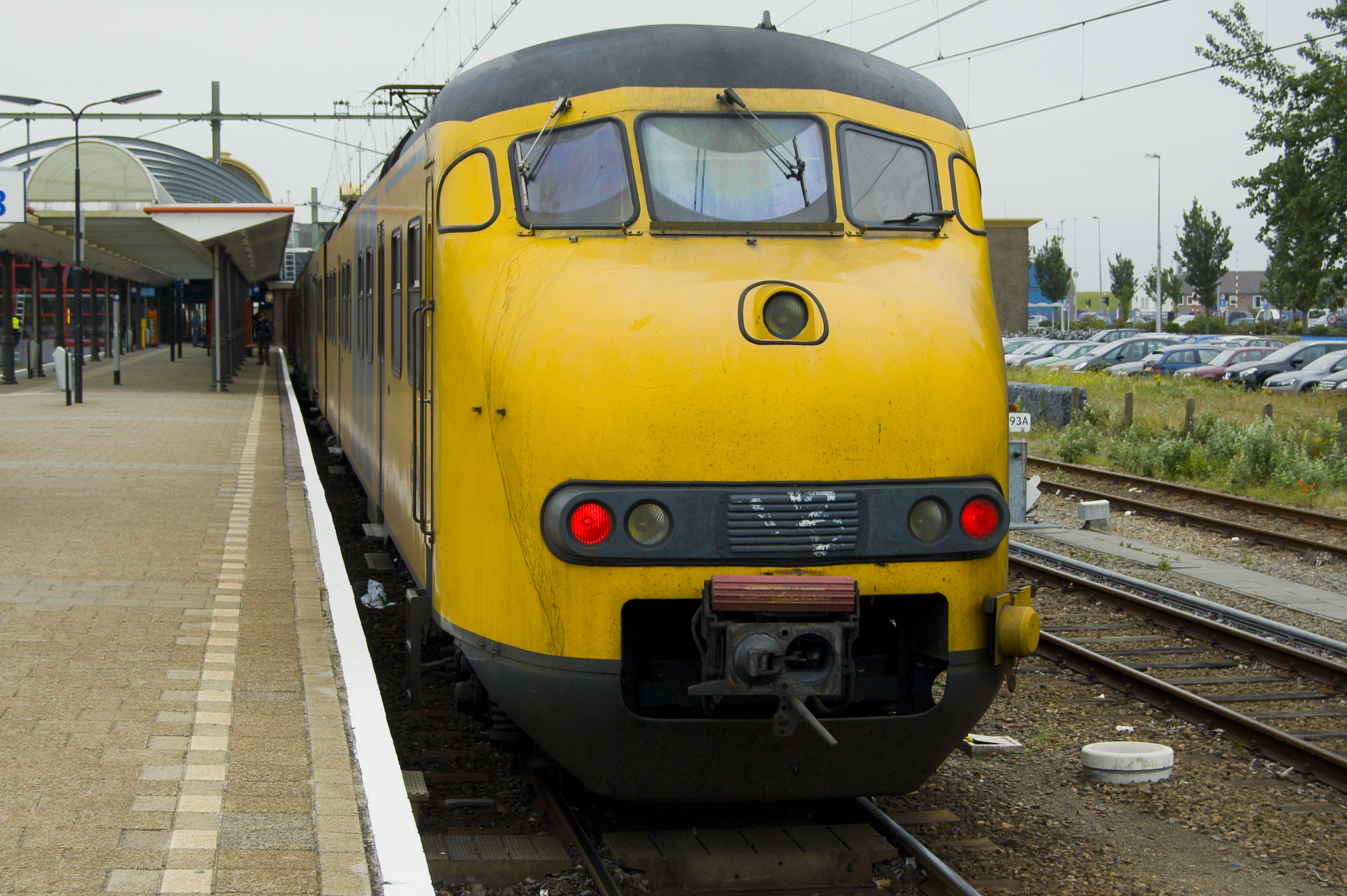 The oldest Dutch NS train in service at Vlissingen. The 441 was built in 1969 at Werkspoor and is still in service.